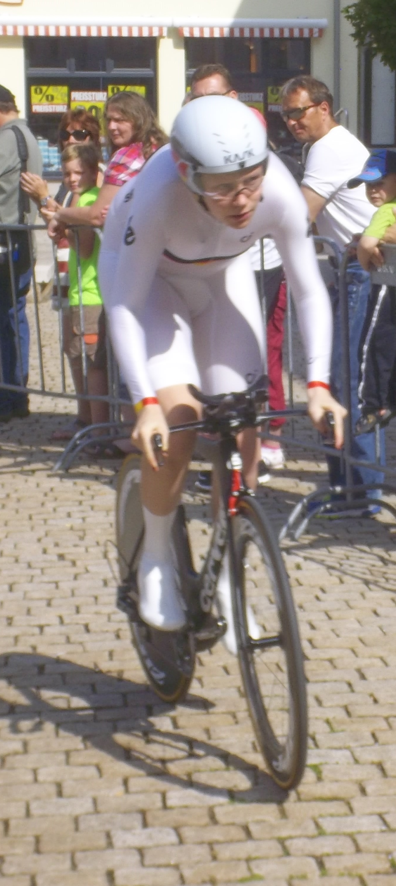 Mieke Kroeger with her german champion jersey during the stage 3a of the Thuringen Rundfahrt 2015